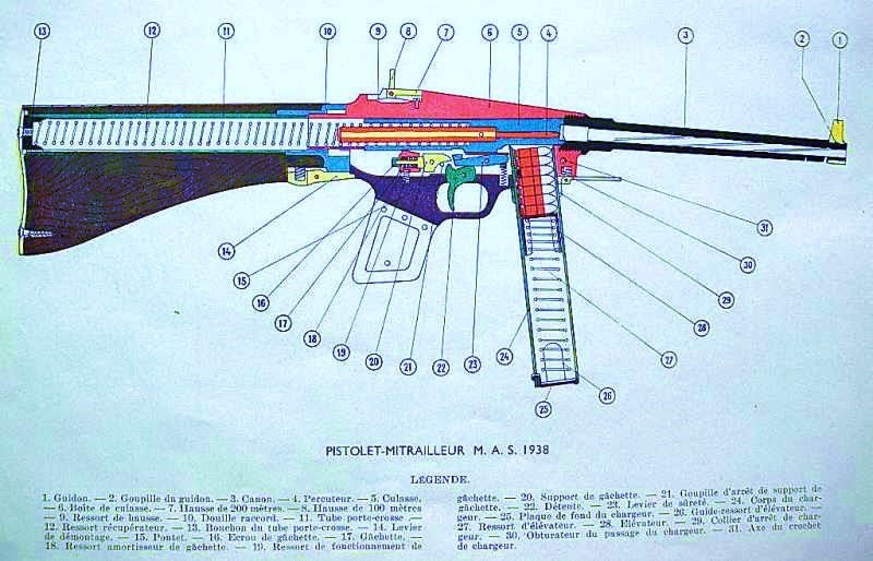 MAS38 sheme